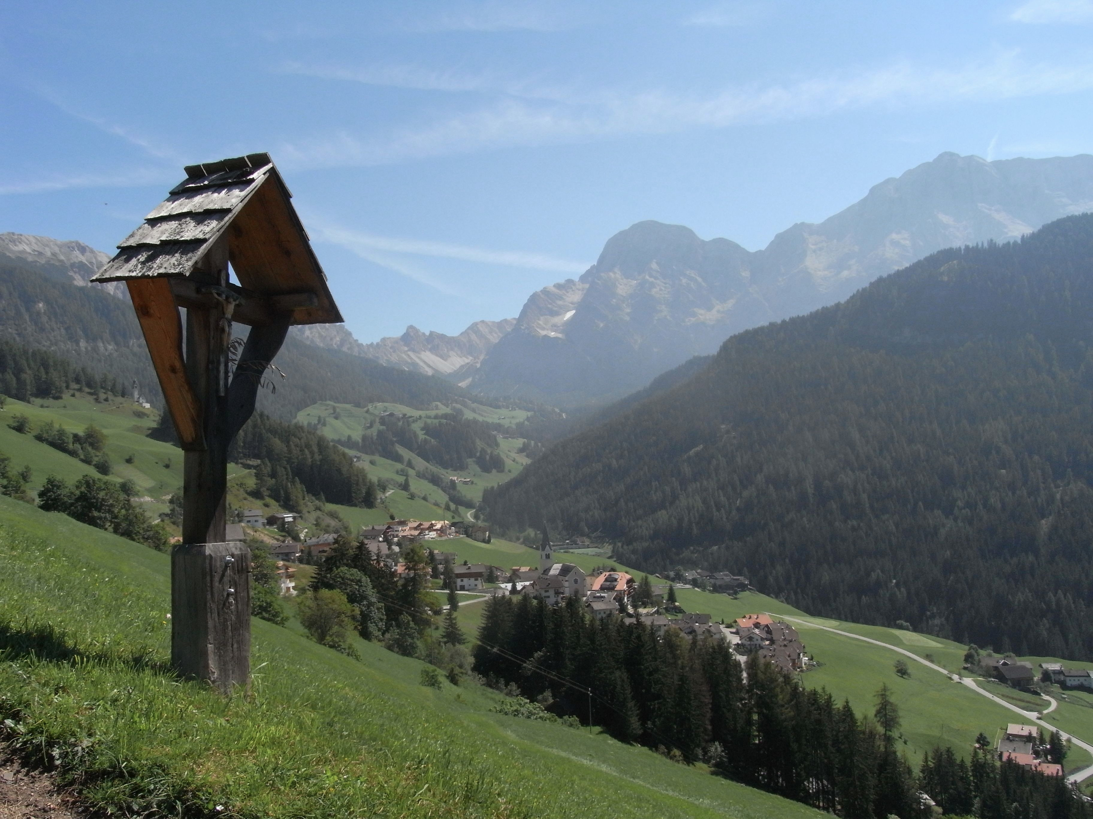 Crucifix in Wengen (Südtirol)